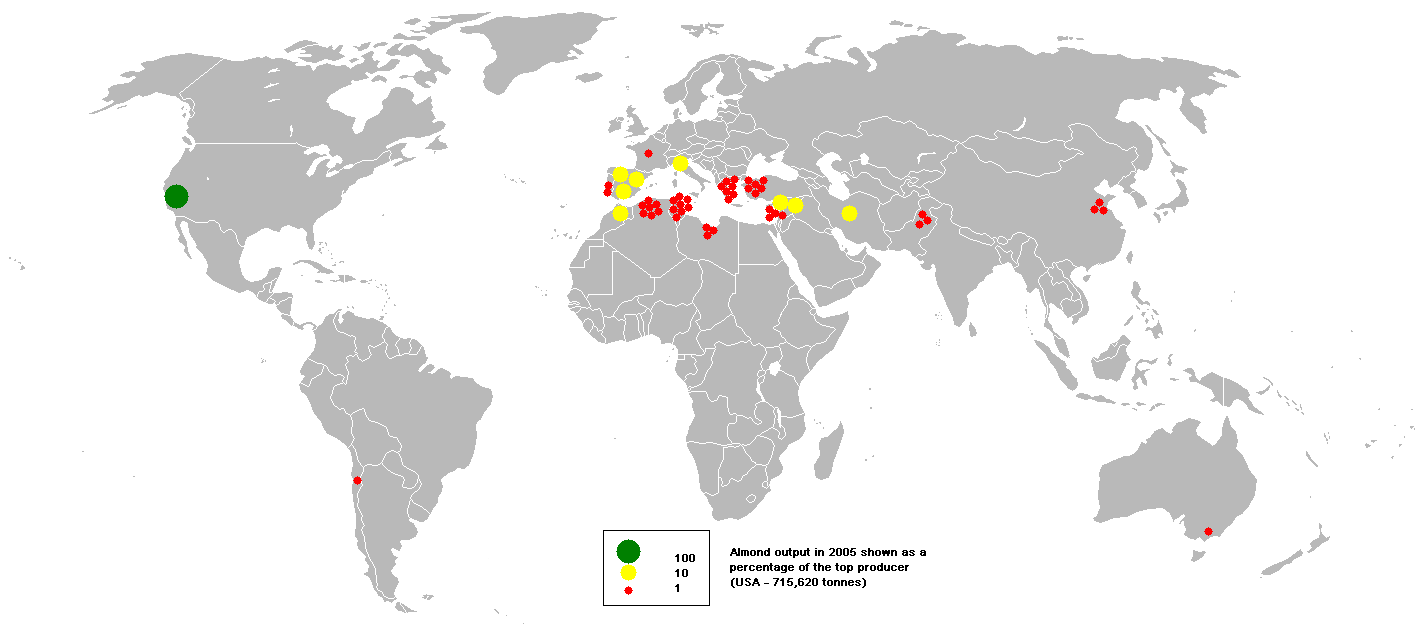 This bubble map shows the global distribution of almond output in 2005 as a percentage of the top producer (USA - 715,620 tonnes). This map is consistent with incomplete set of data too as long as the top producer is known. It resolves the accessibility issues faced by colour-coded maps that may not be properly rendered in old computer screens.